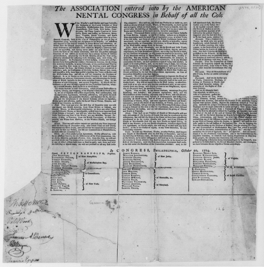 From Thomas Jefferson's papers, this is a broadside copy of the Continental Association that was signed by Jefferson and other Virginians